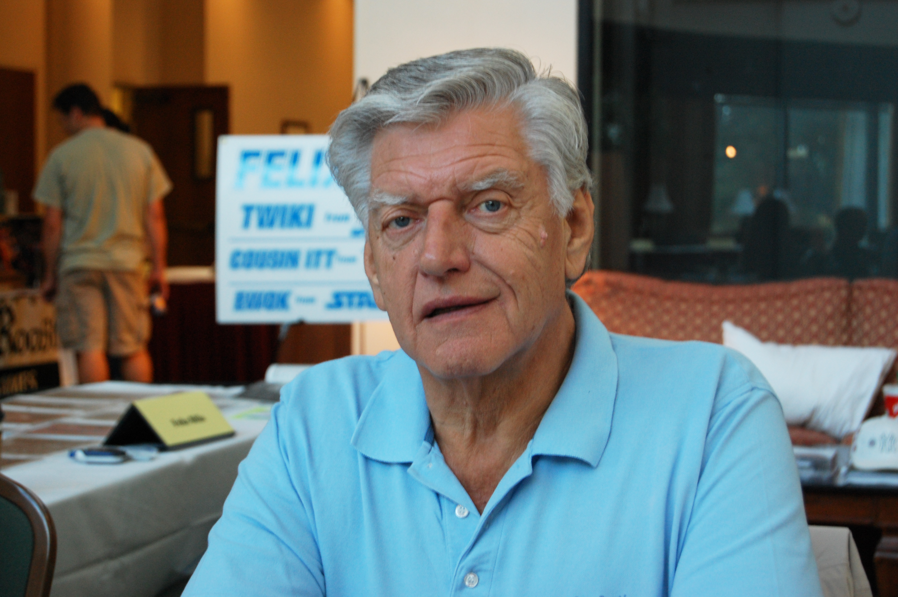 David Prowse at Mountain-Con III in Layton, Utah.